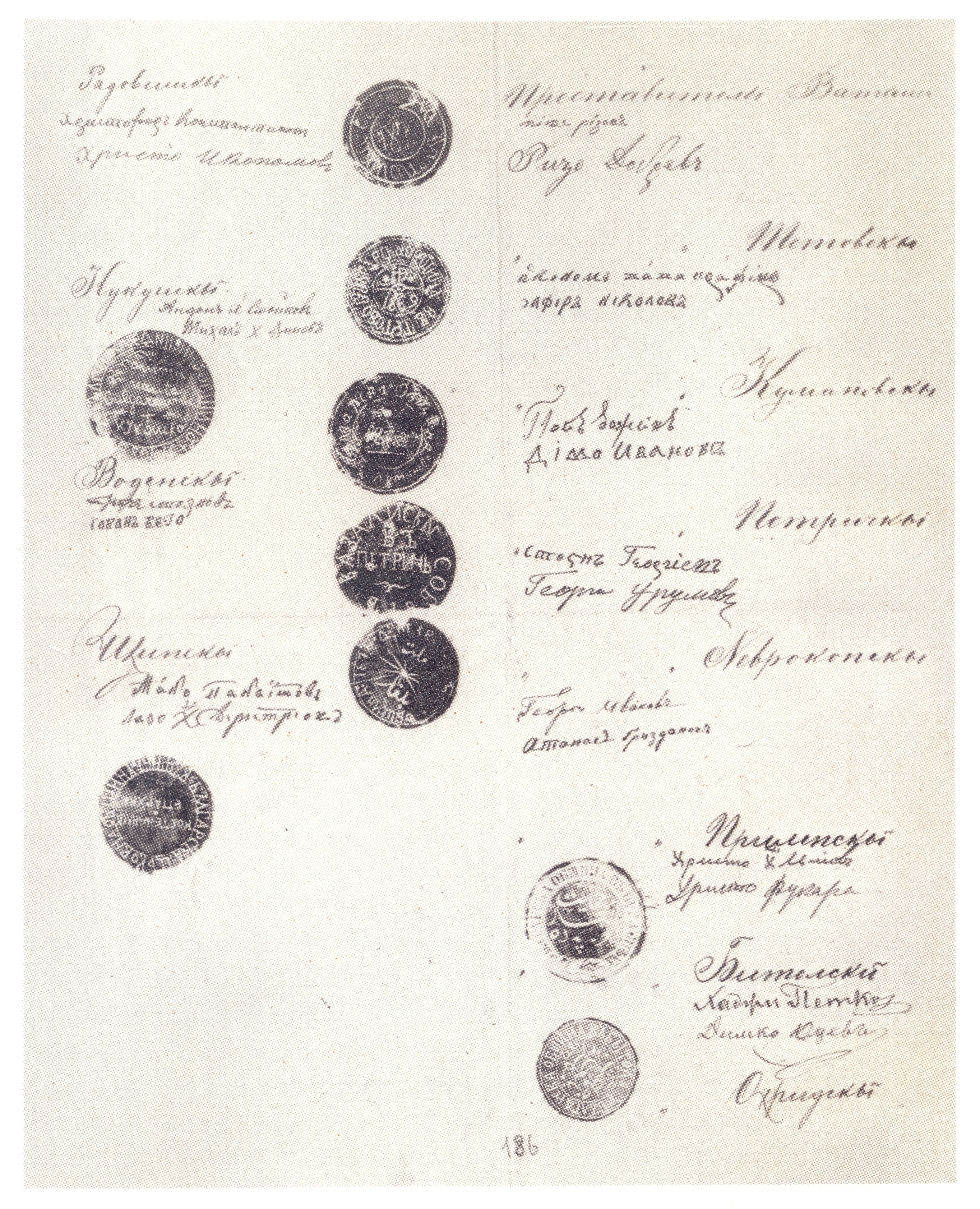 Memorandum of the Macedonian Bulgarian Municipalities to the Great Powers for unification with Bulgaria.